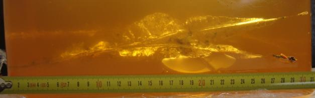 Impact of the 7.92 C2F bullet in gelatin.